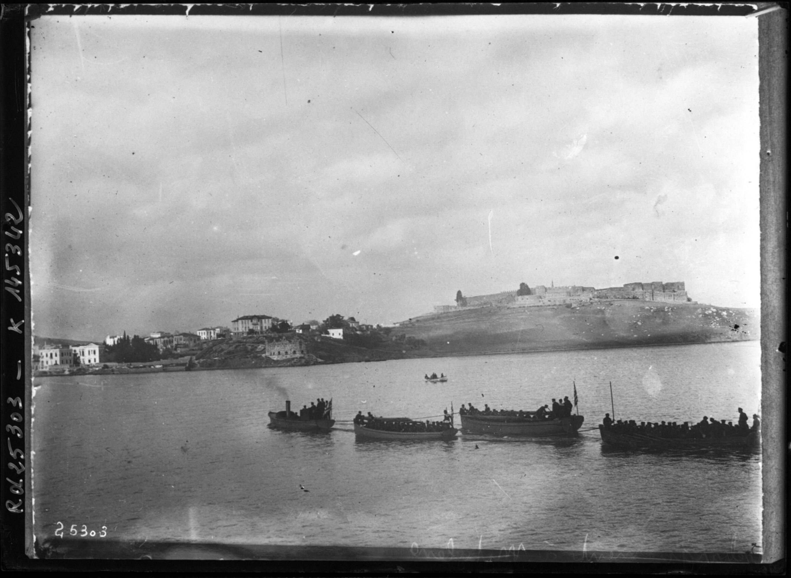 Greek troops land at Mytilene during the First Balkan War